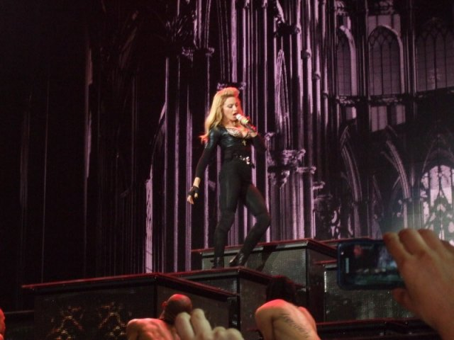 Madonna concert in Barcelona